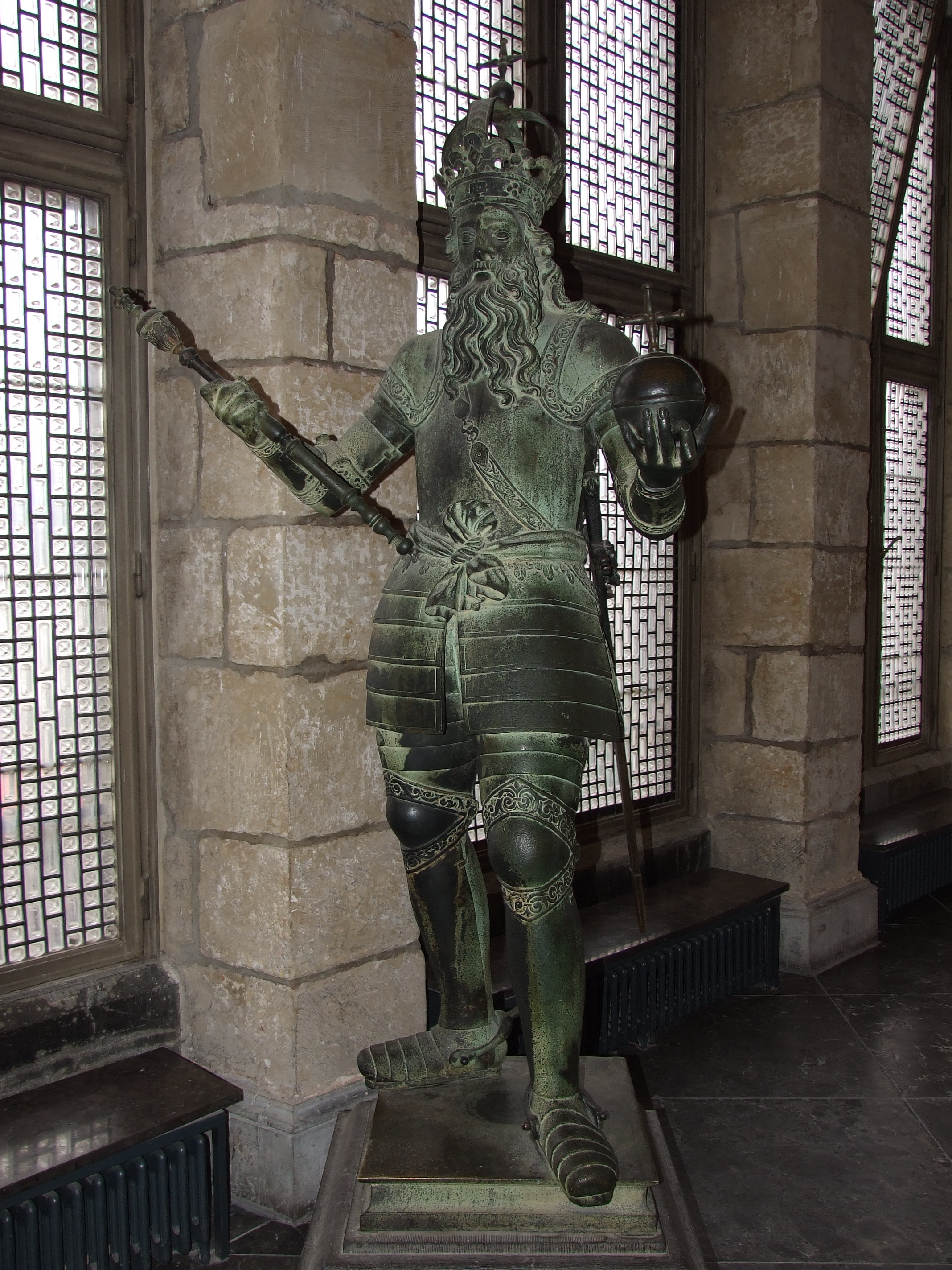 Statue of Charlemagne in the town hall in Aachen